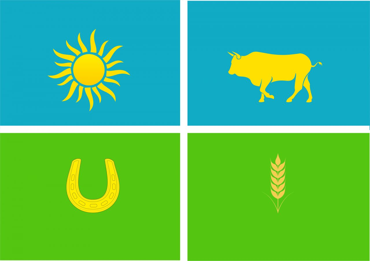 Flag of Lenkivtsi Rural Amalgamated Hromada, Khmelnytskyi Oblast, Ukraine